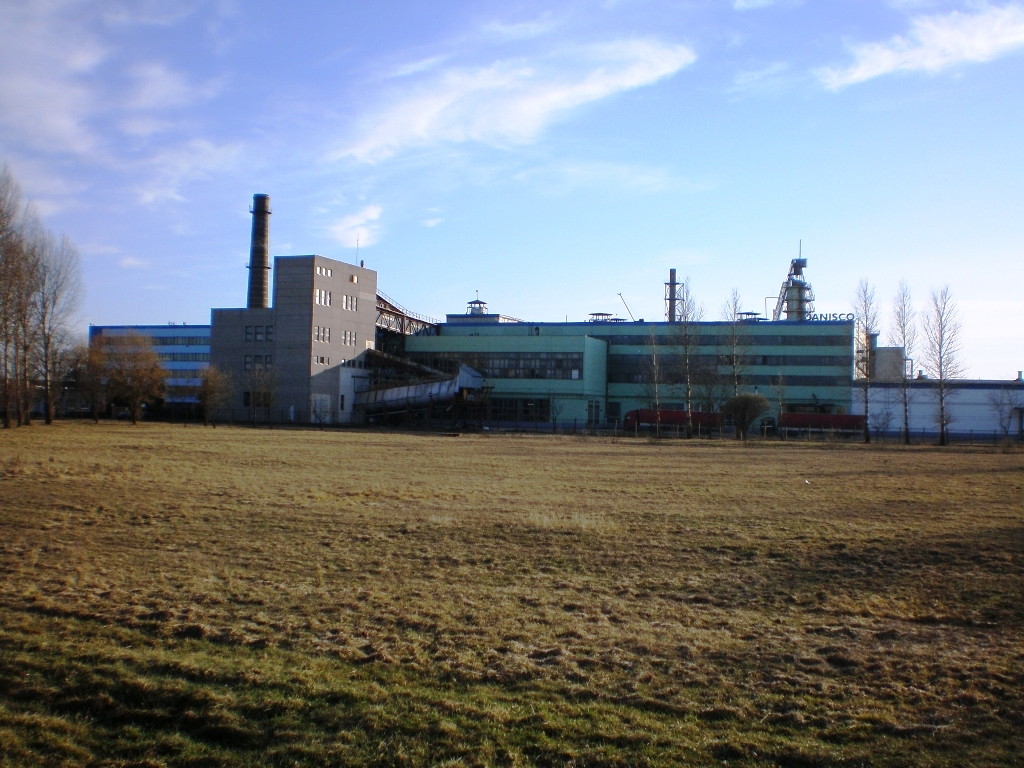 AB "Nordic Sugar" sugar factory in Kedainiai